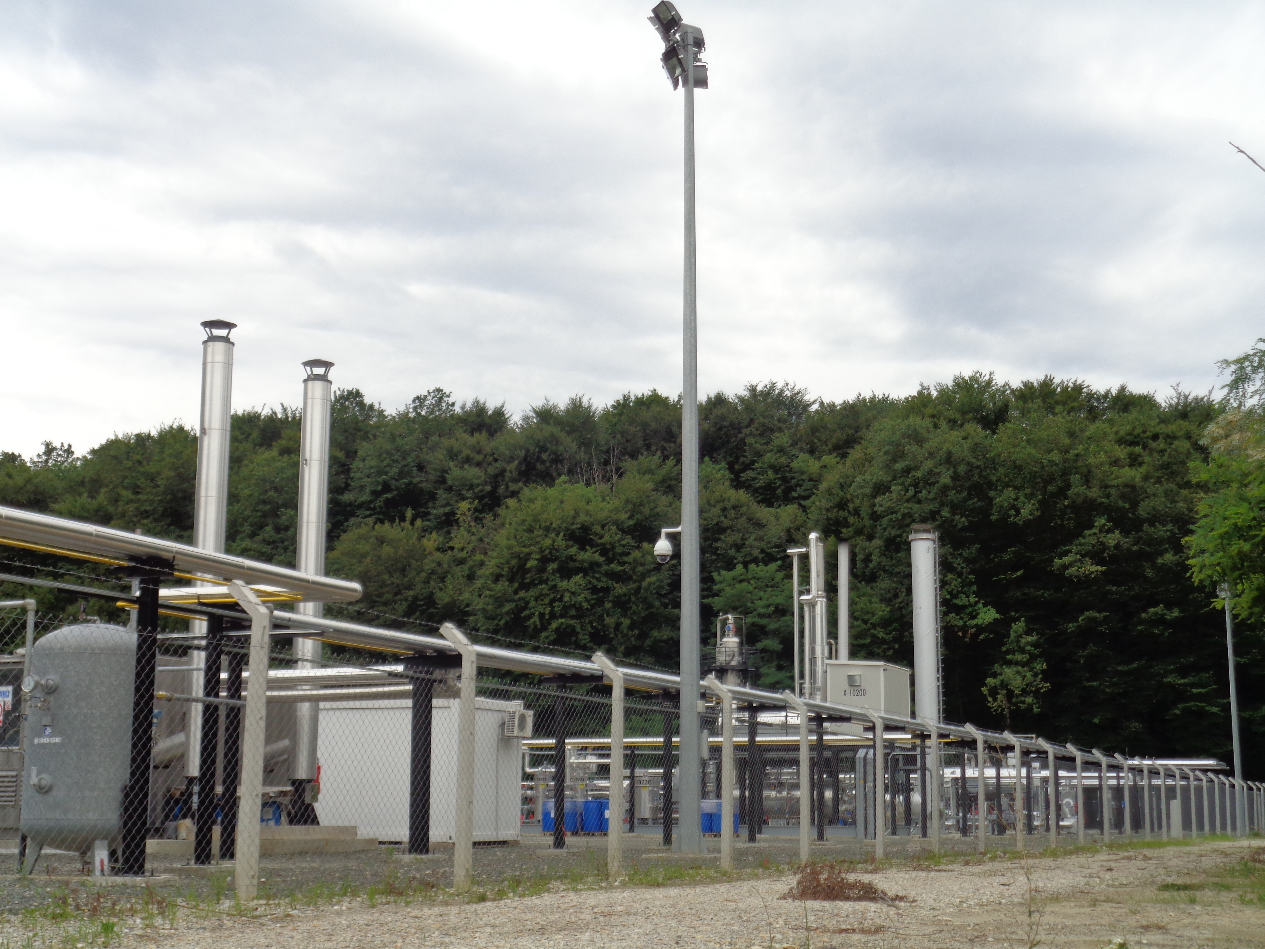 Natural gas facility on the Vučkovec Gas Field, Medjimurie County, Croatia